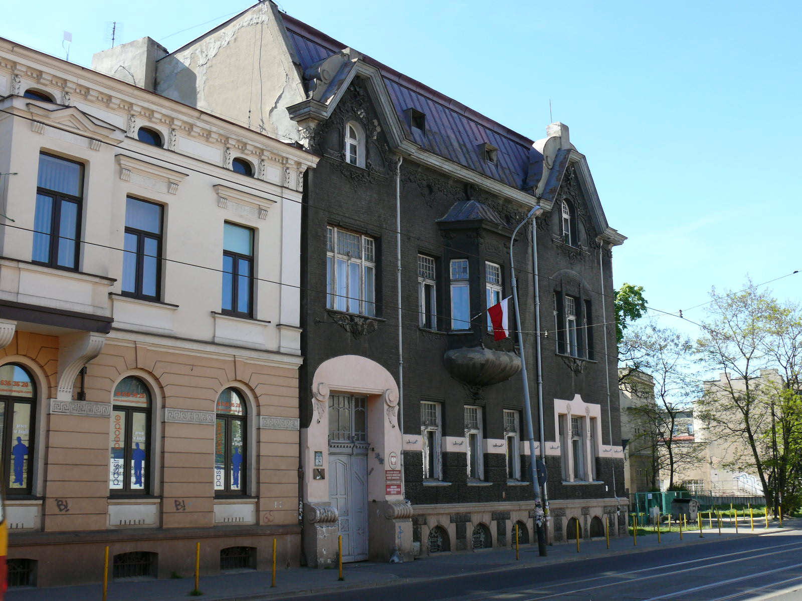 Reinchardt Bennich's palace, Gdańska 89 st., Łódź